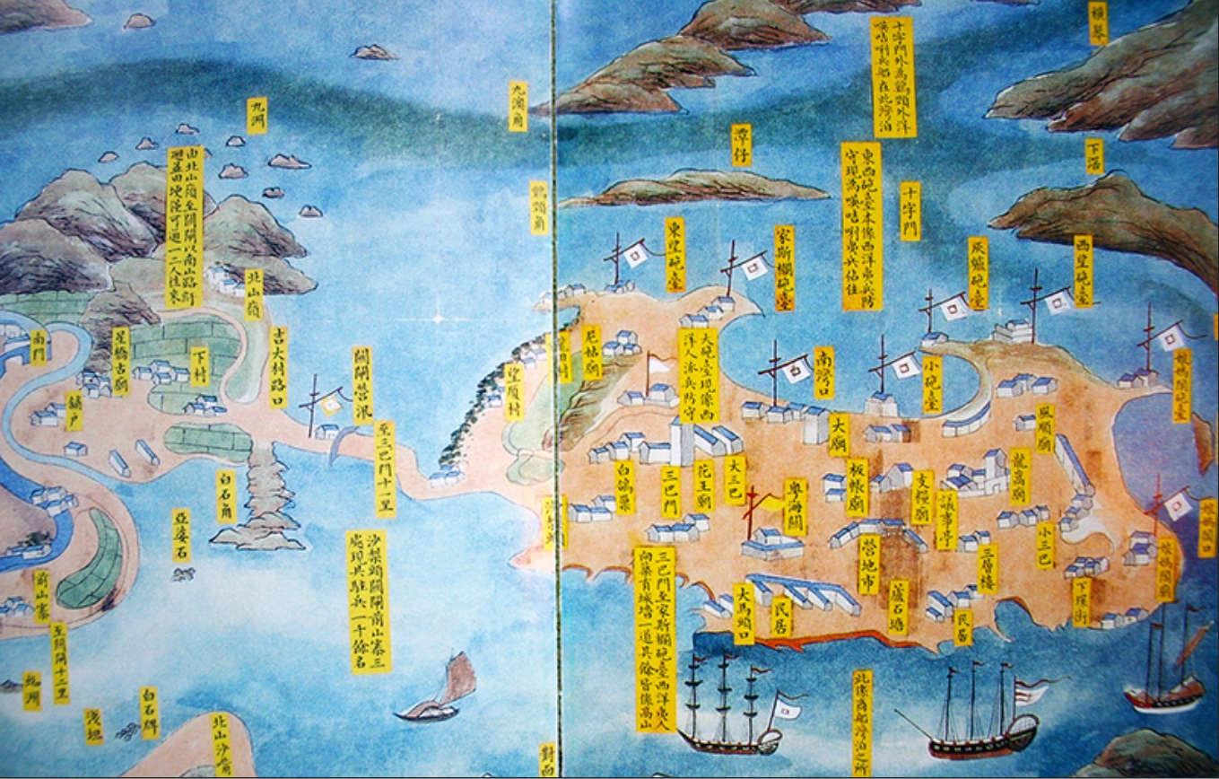 Illustrated Map of Macau in 1808. Attachment to memorial to the throne by Viceroy of Liangguang Wu Xiong Guang.